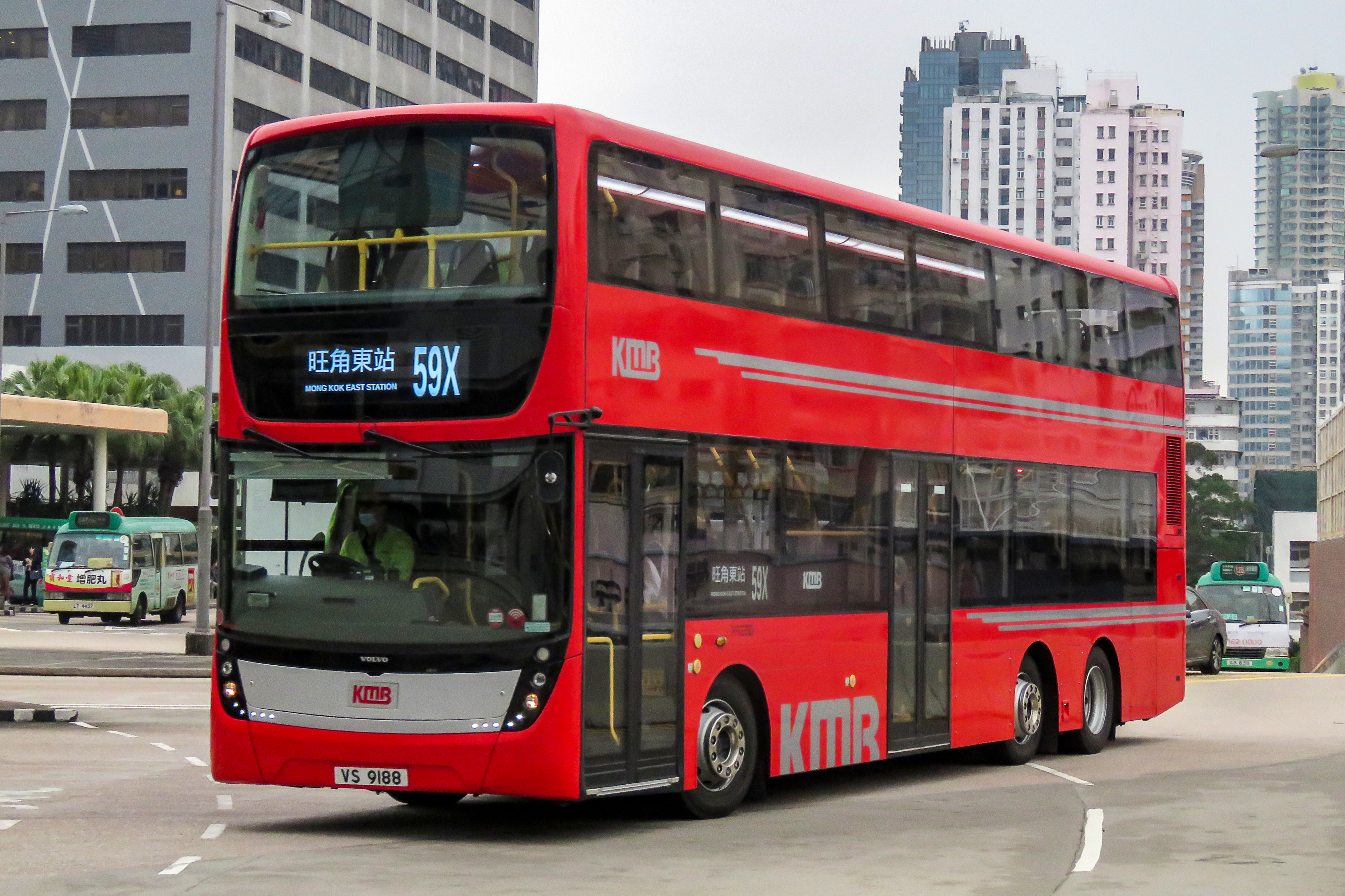 The "Red Bus 2.0" is finally put into service on this "π day", or "White Day". No need to call the "Longhair" because the font size of its LCD display has been enlarged.